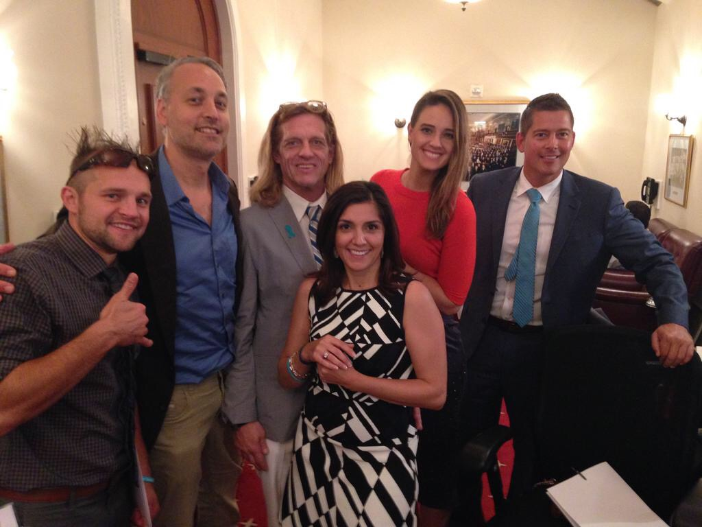 Derrick Kosinski, Norman Korpi, David “Puck” Rainey, Rachel Campos-Duffy, Laurel Stucky, and Sean Duffy at the launch of Congressional Ovarian Cancer Caucus.